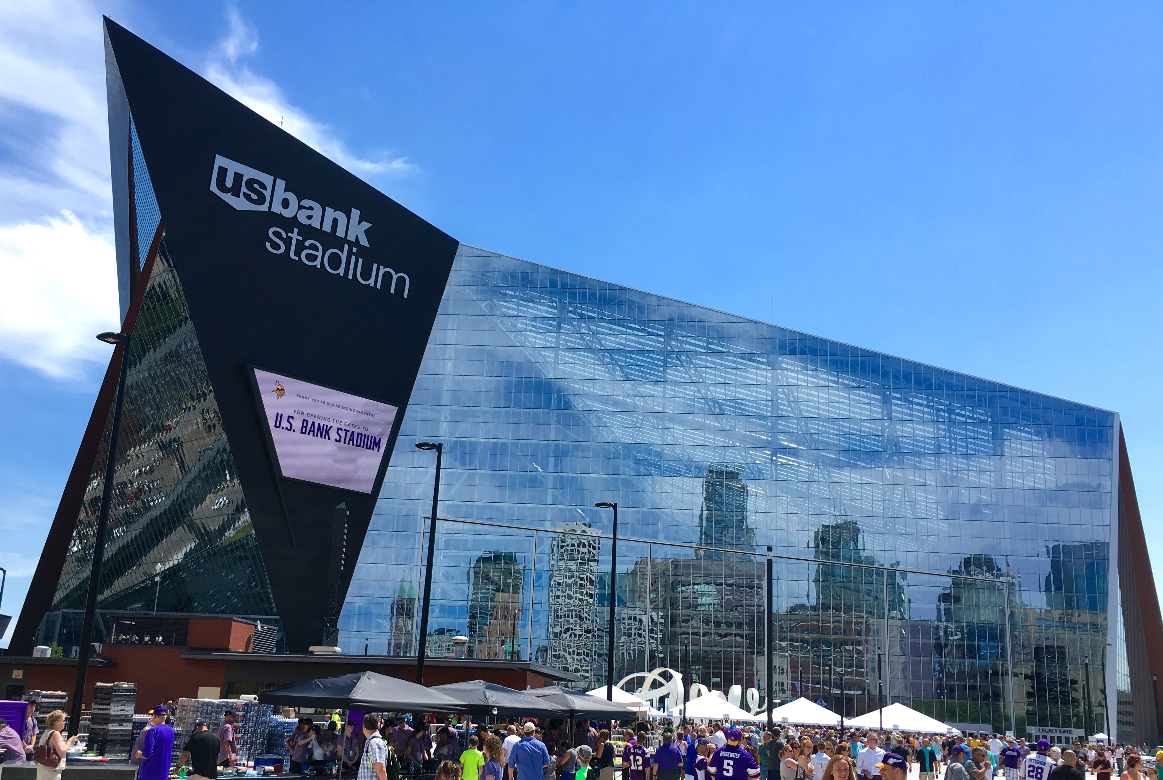 US Bank Stadium as seen from the west